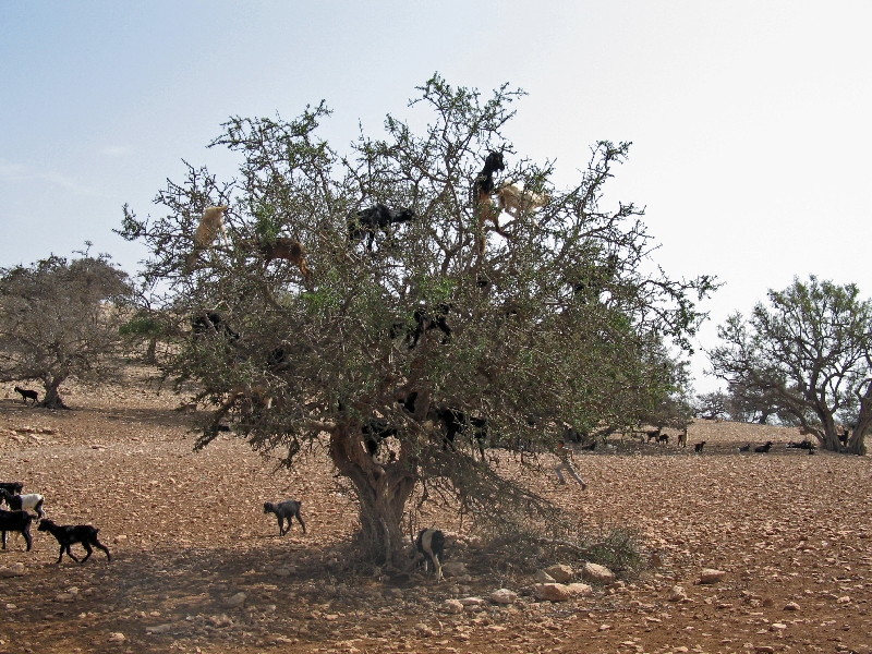 Argan near Essaouira, Morocco